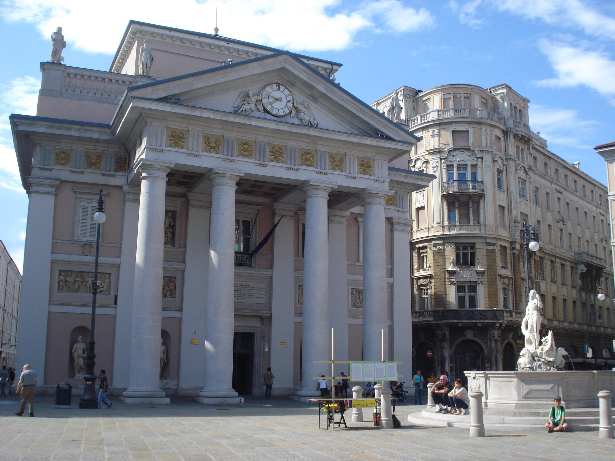 Triest, Italy - Borsa Vecchia (Old Stock Exchange)